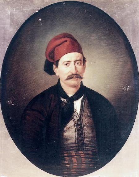 Ioannis Kyriakou - Greek Fighter of the 1821 Ιωάννης Κυριακού